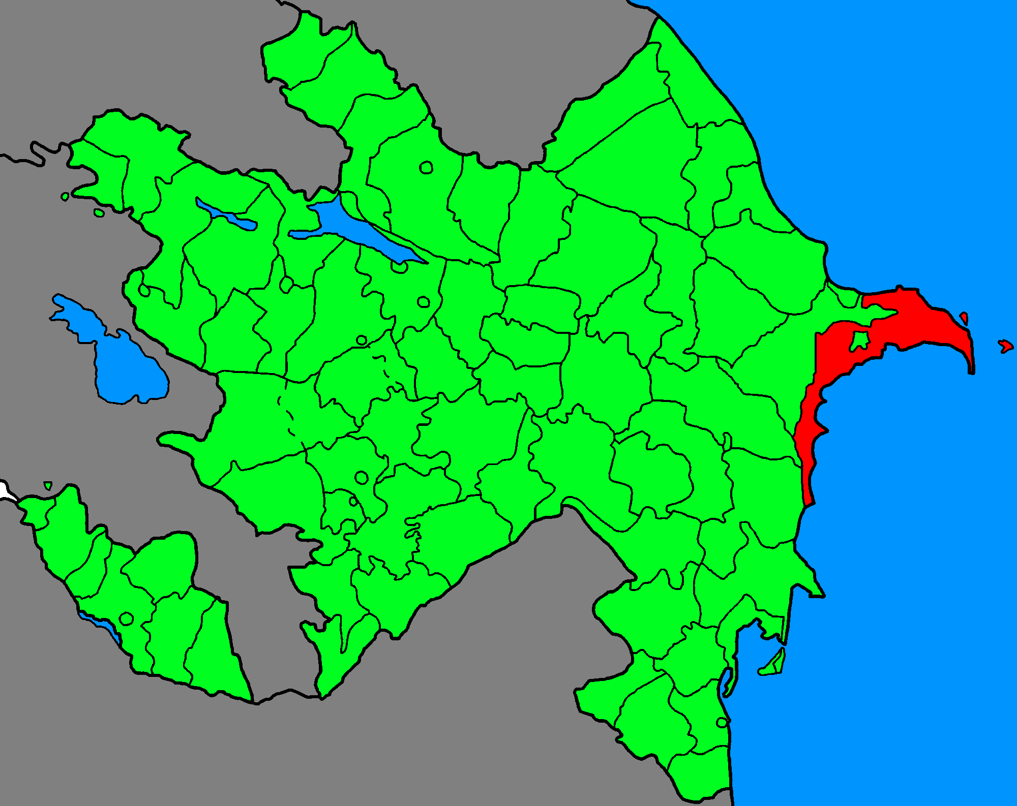 Baku district on the map of Azerbaiajan=